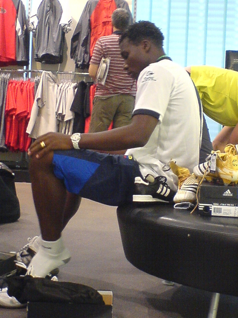 Carlos Tenorio at the Adidas Outlet in Herzogenaurach, Germany during the 2006 FIFA World Cup Germany